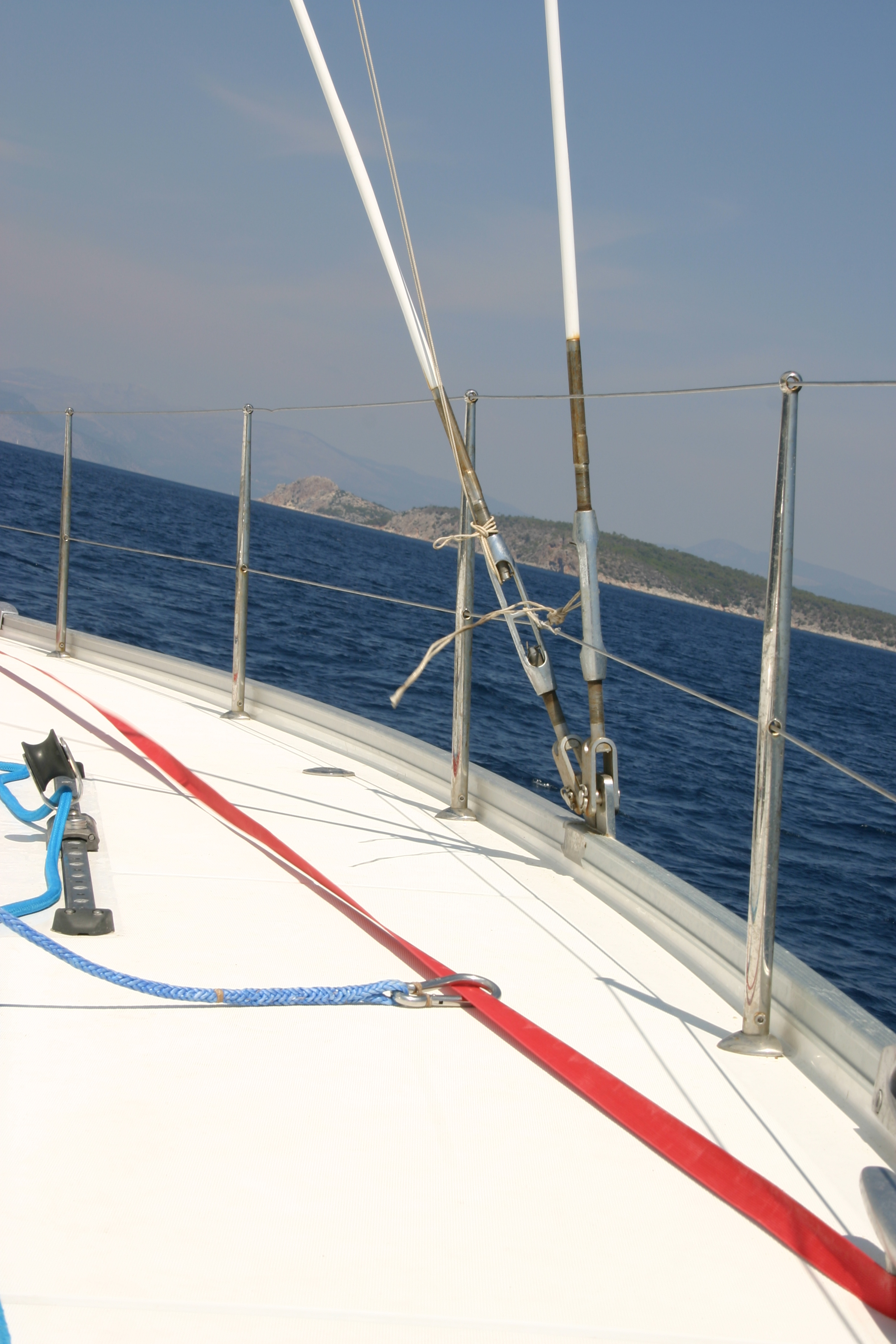 Author: Frank van Mierlo